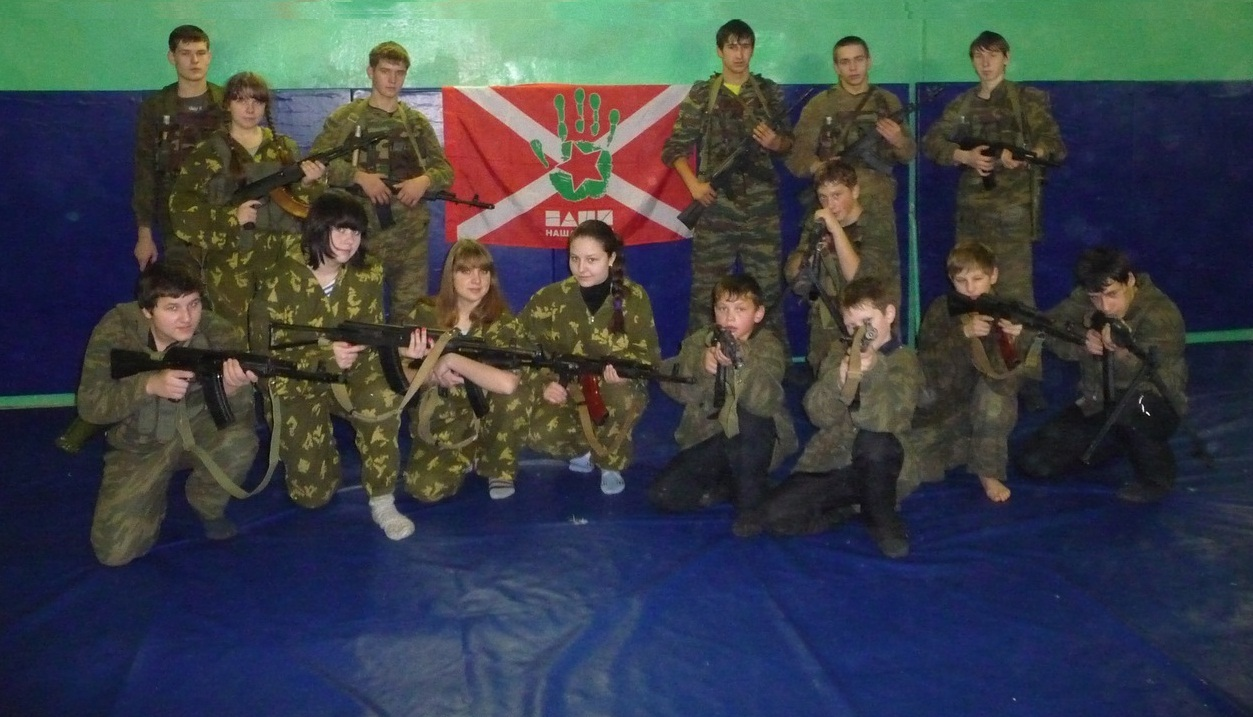 Project "Nasha Army", the youth movement of NASHI, city Smolensk